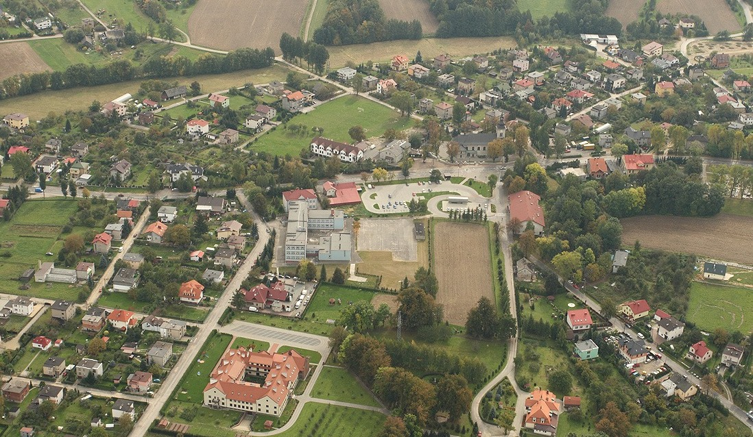 Aerial photography of Hałcnów - district of Bielsko-Biała, Poland.